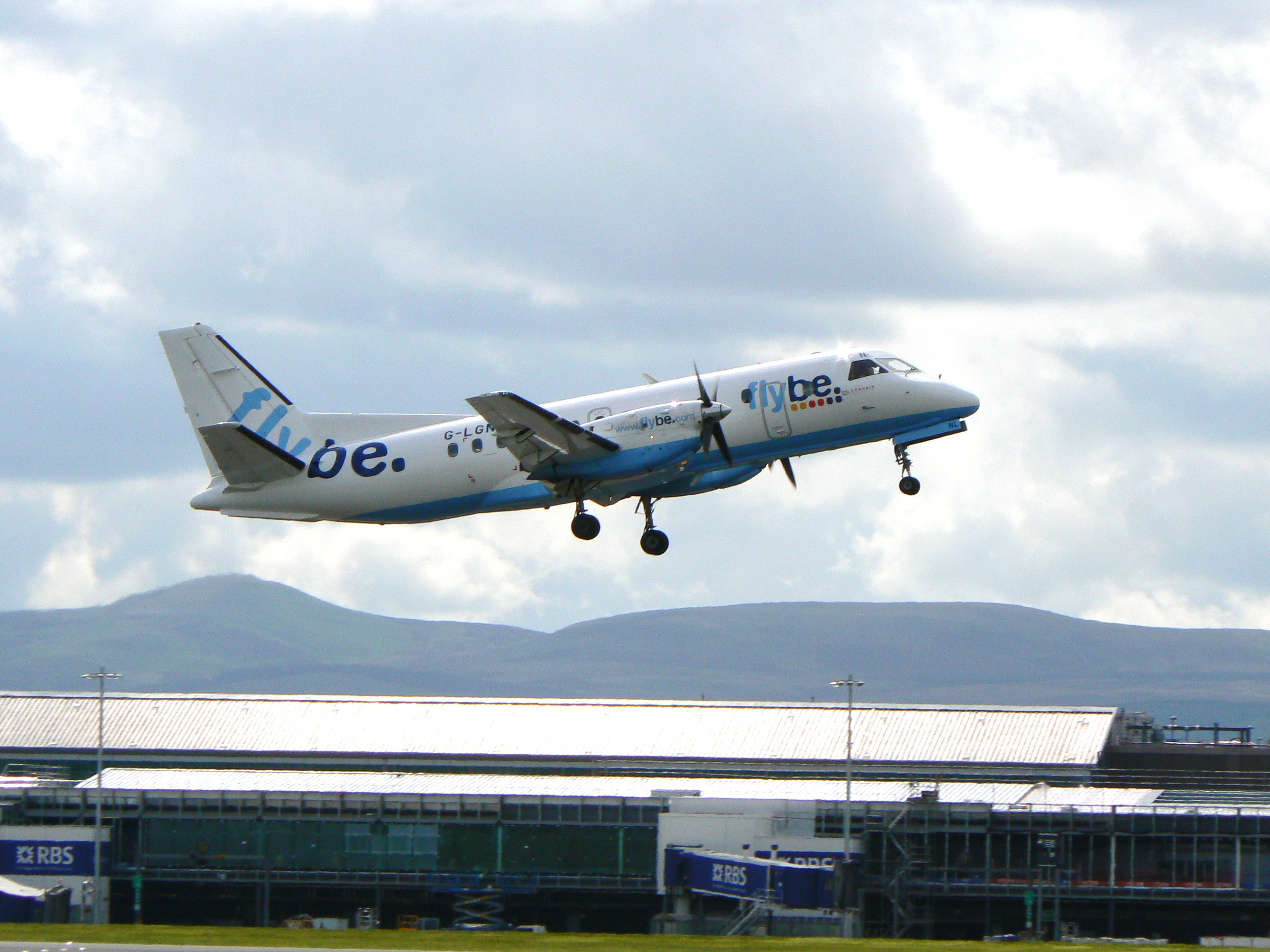 A Saab 340 of Loganair taking off from runway 24 at Edinburgh Airport.